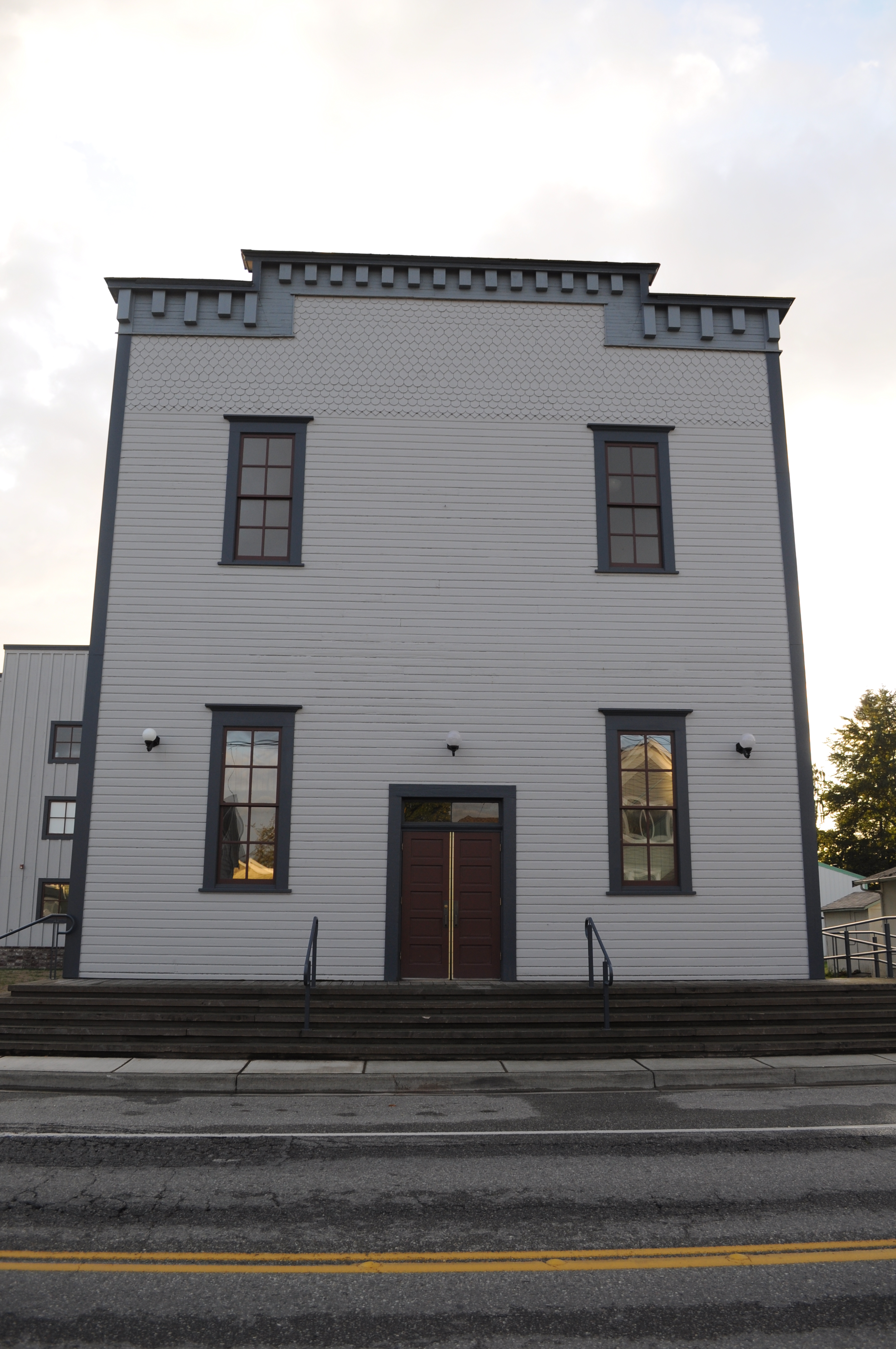 Stanwood Fraternal International Order of Odd Fellows Hall (Stanwood IOOF Public Hall), built 1903, now the Floyd Norgaard Cultural Center, Stanwood, Washington, USA. The building is on the National Register of Historic Places, ID #2000087.